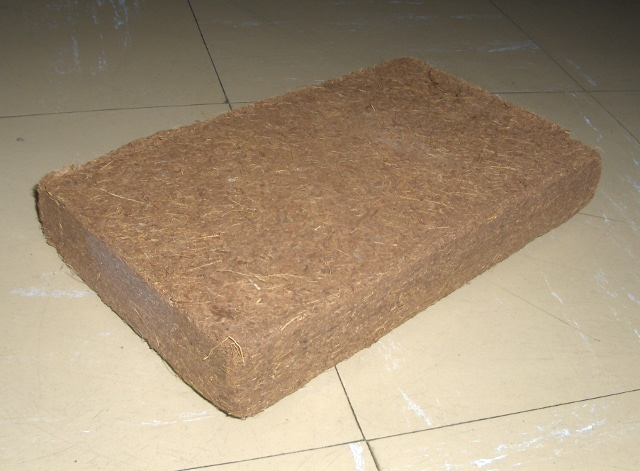 A single brick of coco coir.